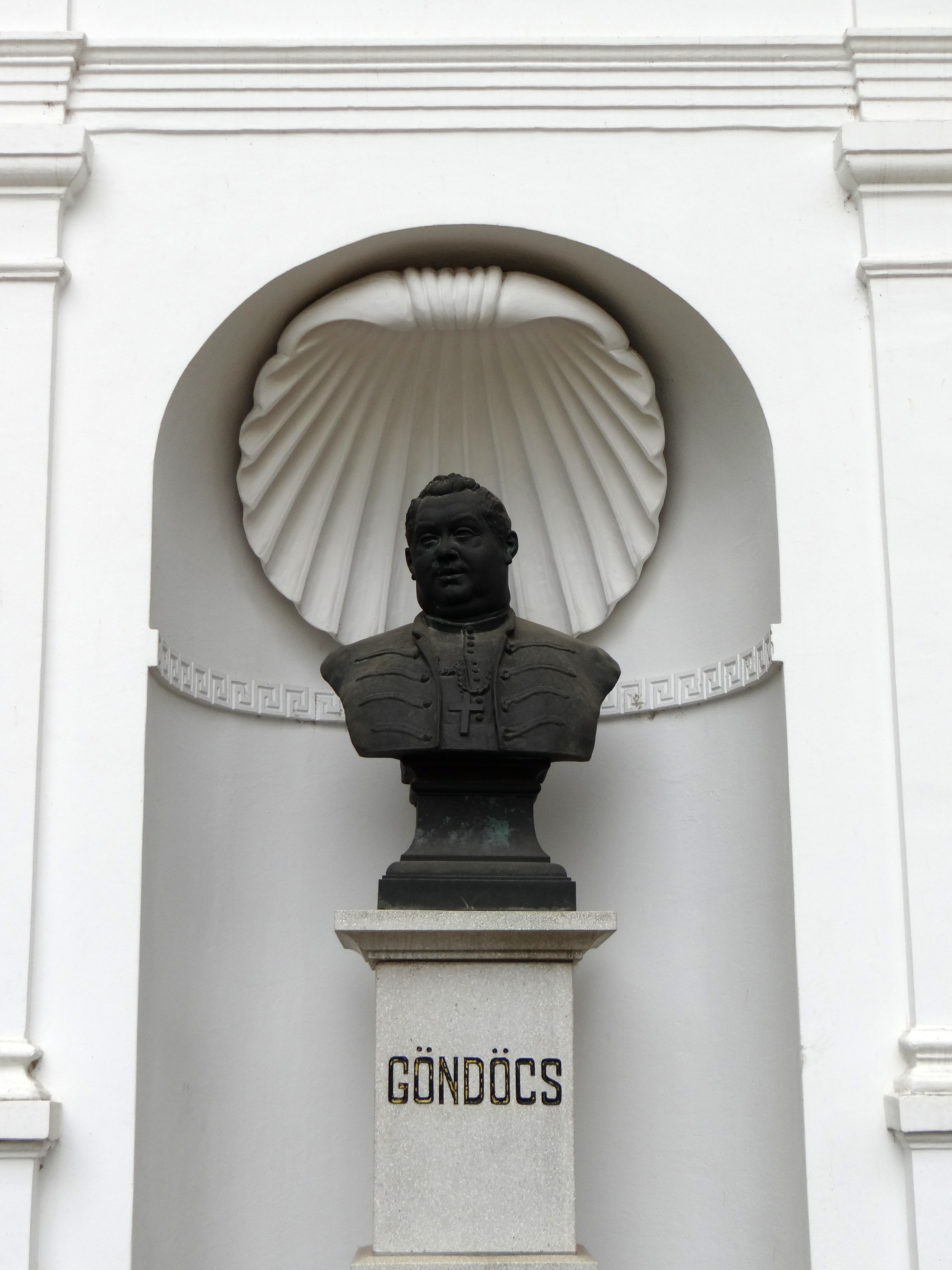 Bust of Benedek Göndöcs (1824–1894), by László Técsy. 35 Béke Avenue, Gyula, Hungary